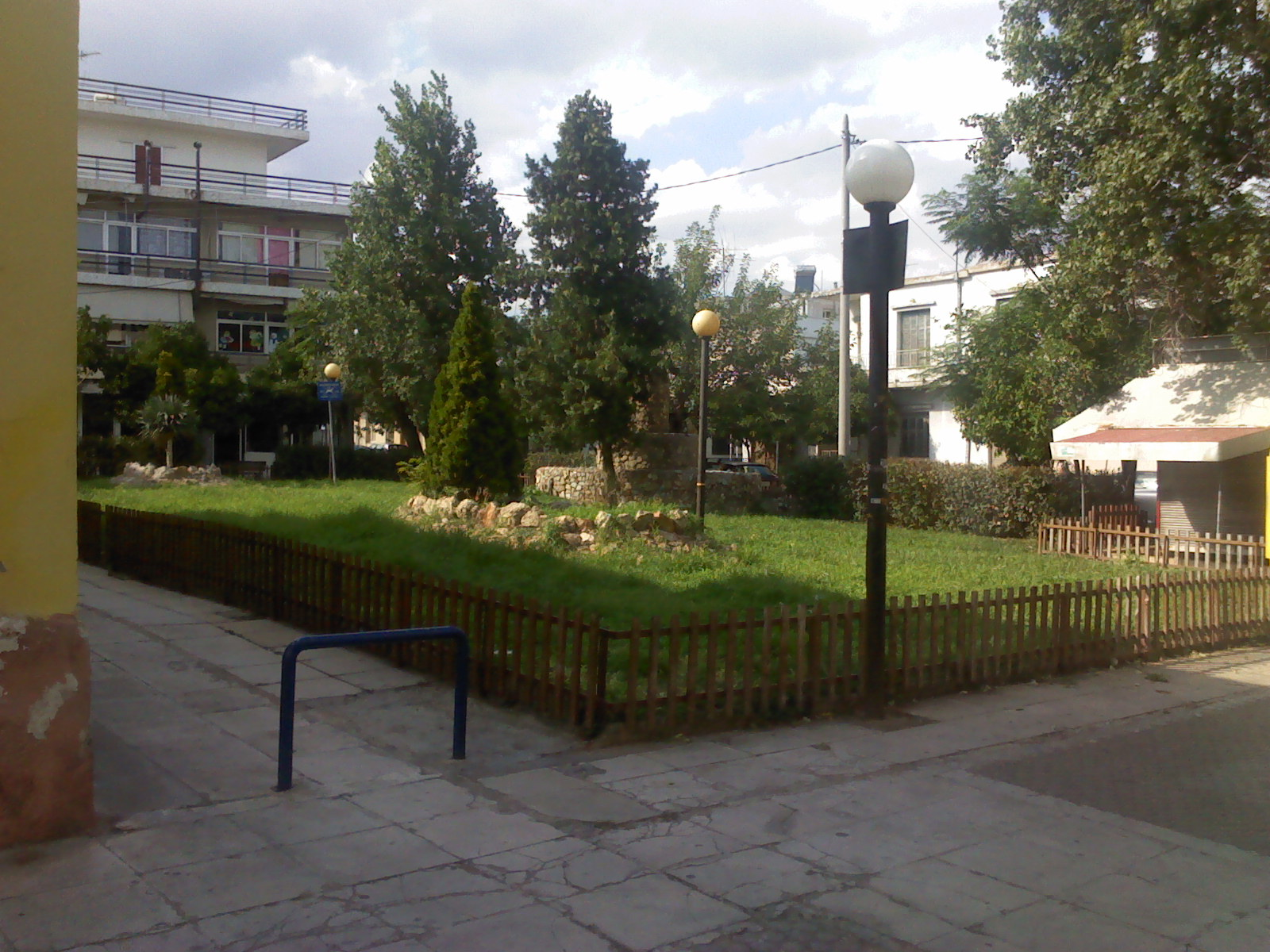 Square Metamorfosis Sotira Palaia Kokkinia